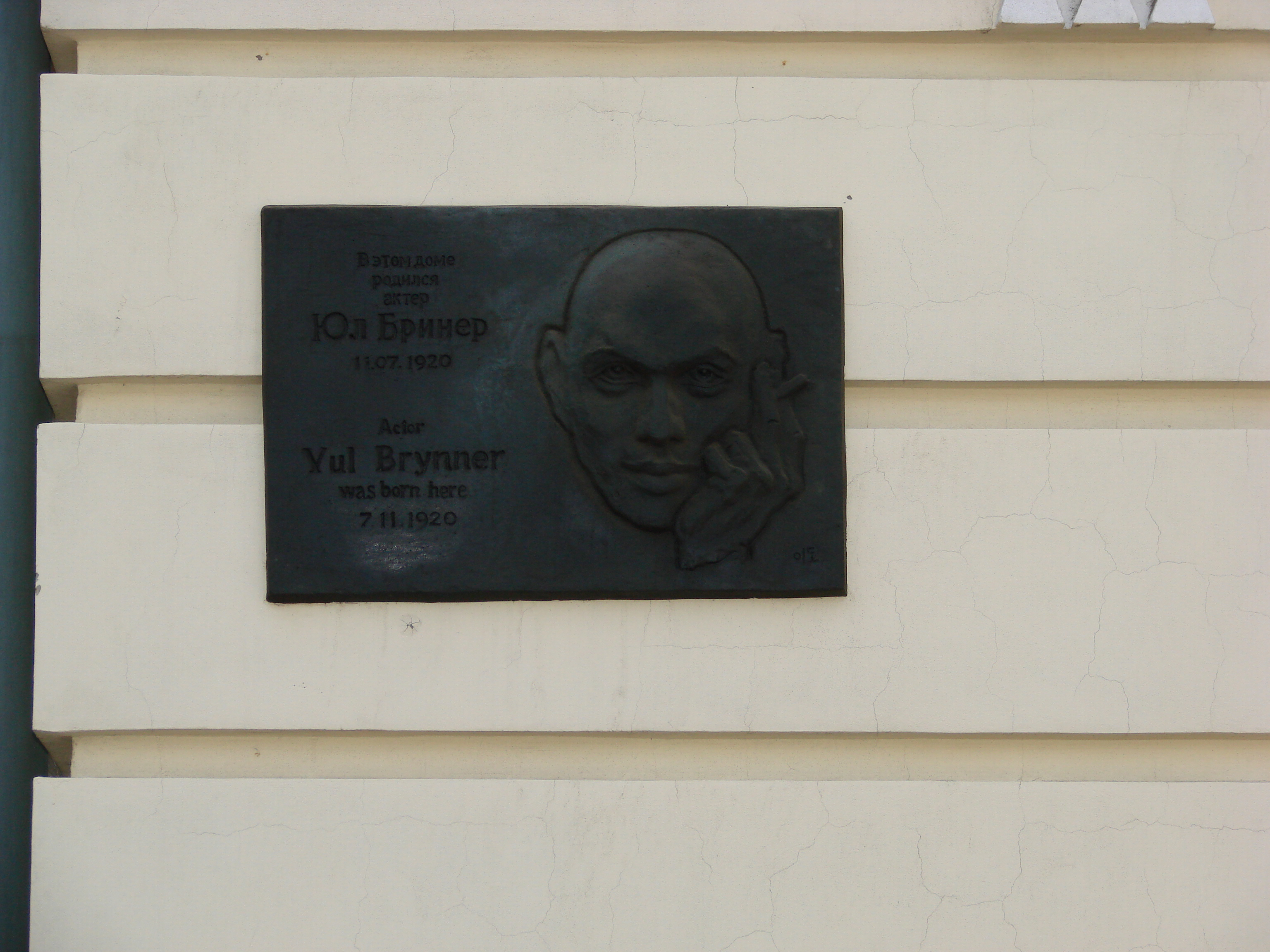 Plaque on Yul Brynner's House. Vladivostok.